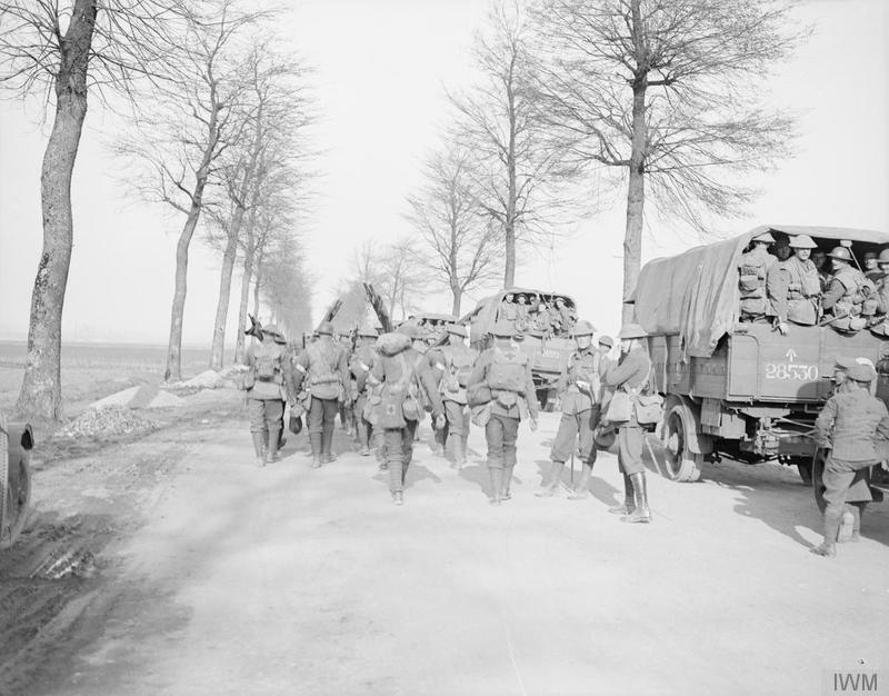 The German Spring Offensive, March-july 1918 Battle of St. Quentin. Stretcher bearers passing by motor lorries of the 2nd Battalion, Grenadier Guards. Near Arras, 22 March 1918. "Third system of defence" in front of Arras.